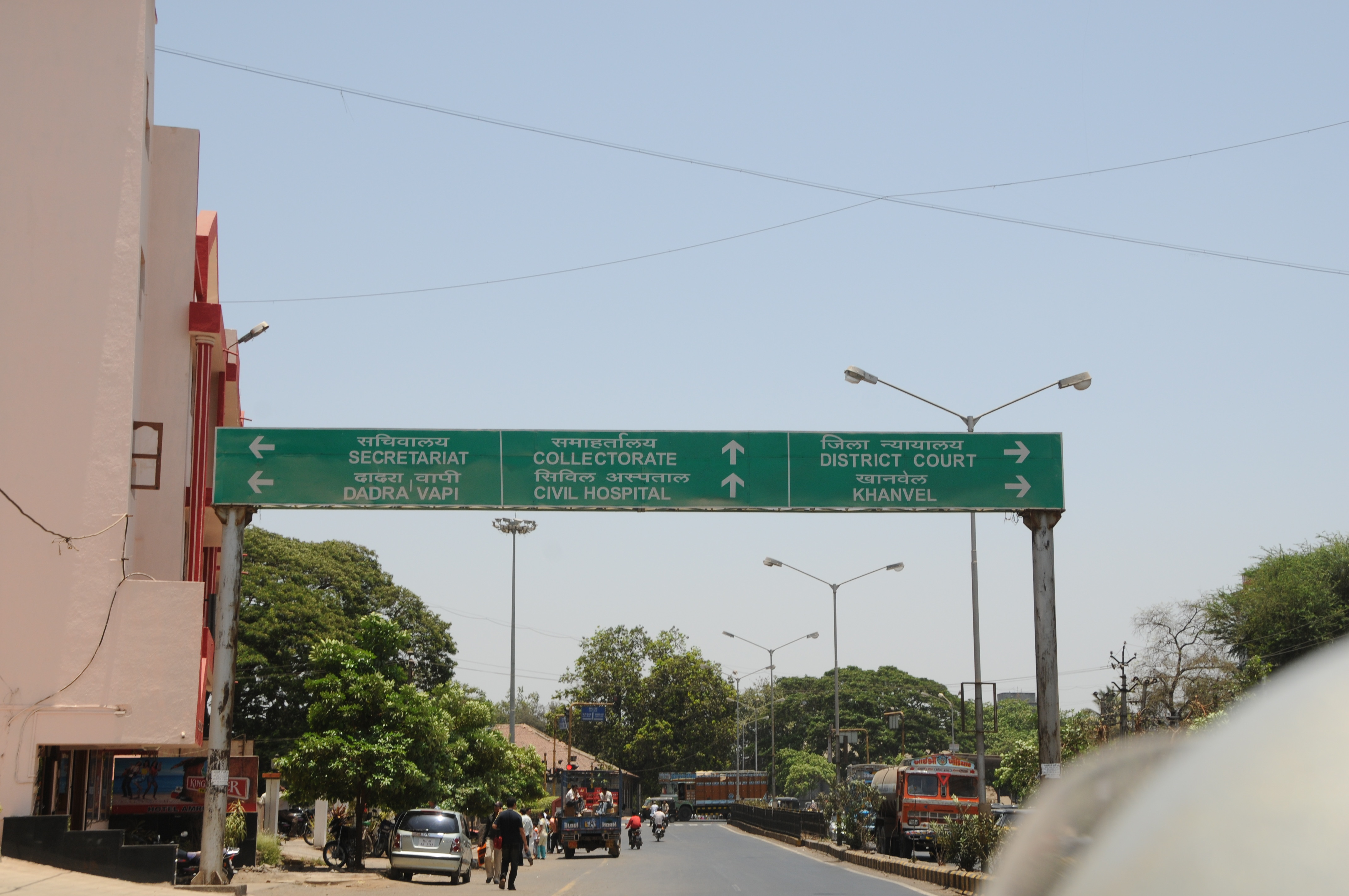 Street in Silvassa, Dadra and Nagar Haveli, India